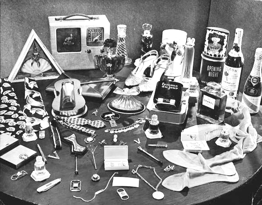 Photo of gifts given to patrons of the Stork Club by Sherman Billingsley in 1944. Billingsley spent over $100,000 every year for gifts to entice celebrities to the club and to make regular visits to it. Renewal searches were done in publications for the years 1971 and 1972. The listings for Life for renewal in 1971 are only for the issues dated in 1943; there are no listings for the magazine in1972 renewals. Time magazine, which is published by the same publisher, was also not renewed during the same time frame. There's no evidence of renewal for any Life 1944 issues.